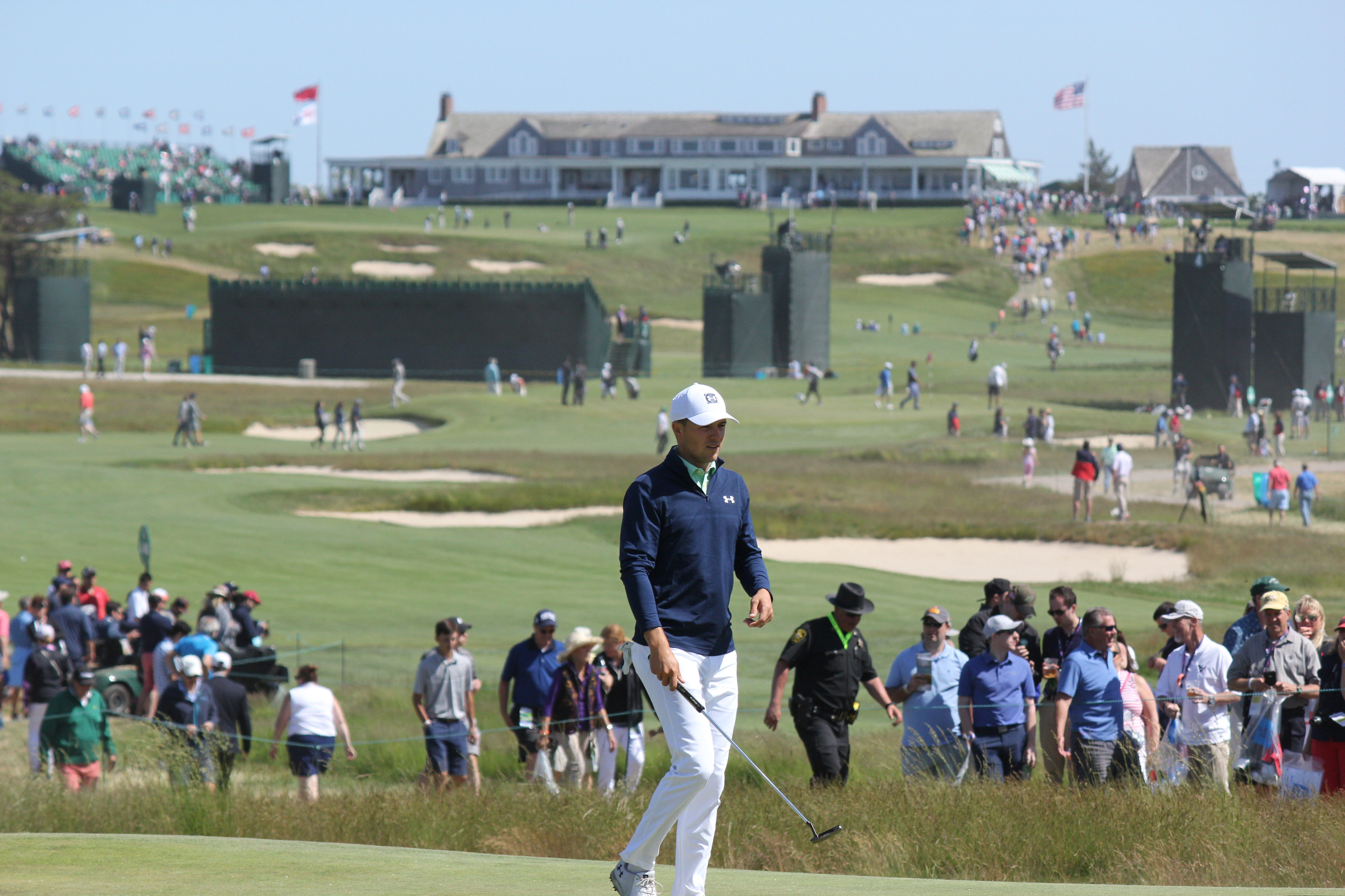 Jordan Spieth at the 2018 US Open